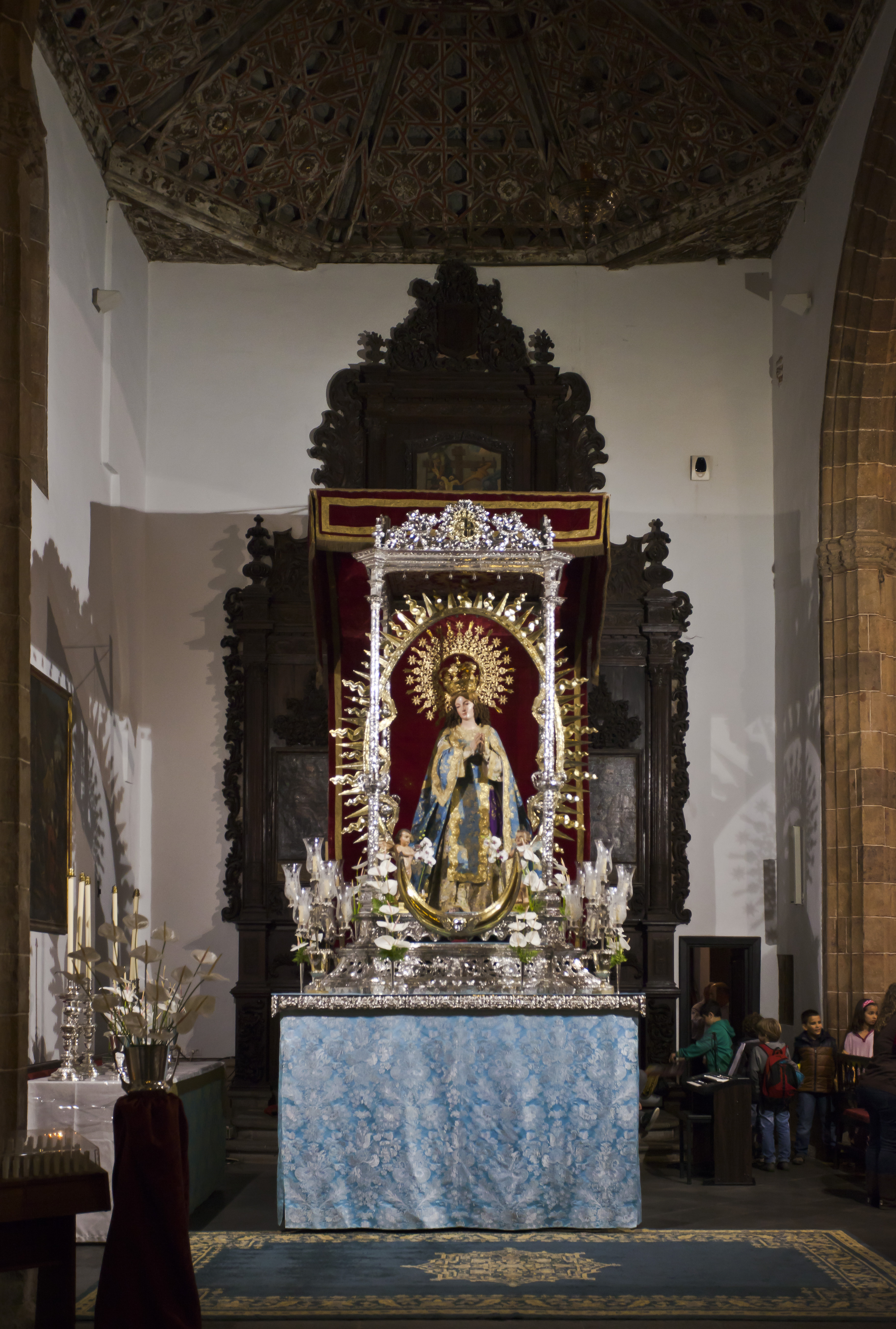 Immaculate Conception Church, San Cristóbal de La Laguna, Tenerife, Spain